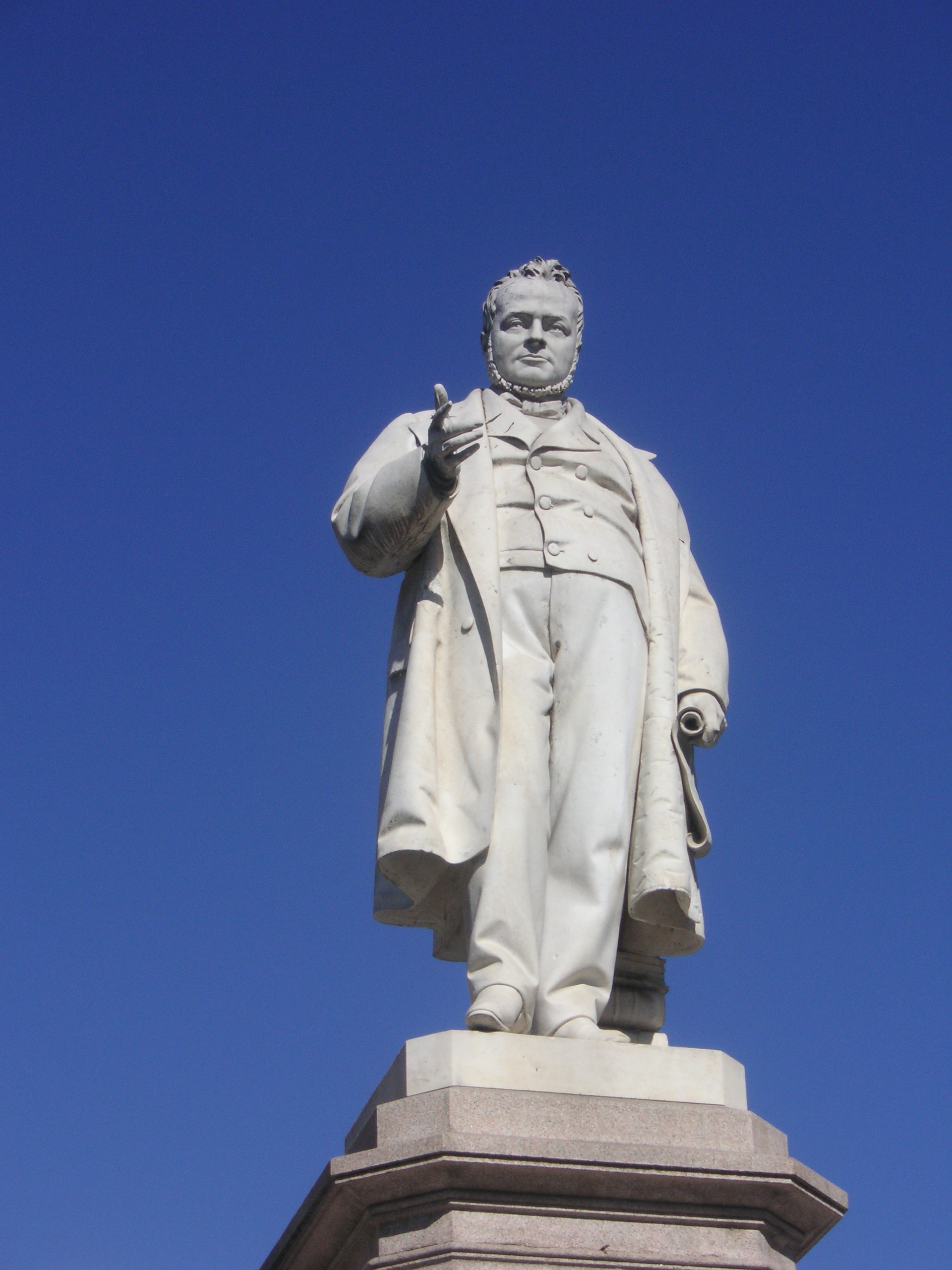 Statue of Cavour in Vercelli, work of Ercole Villa and Giuseppe Argenti, sculptors of the 19th century.